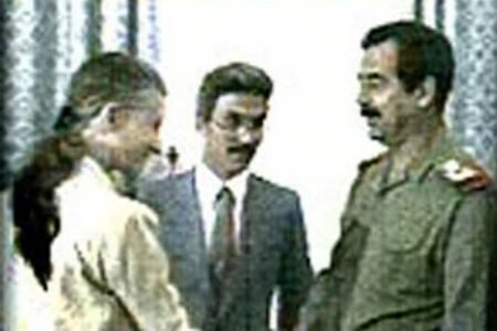 April Glaspie (left) shakes hands with Saddam Hussein (Sadoun al-Zubaydi center)